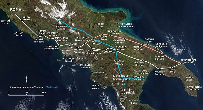 Via Herculea (blue), Via Traiana (red) and Via Appia (white), ancient Italy.